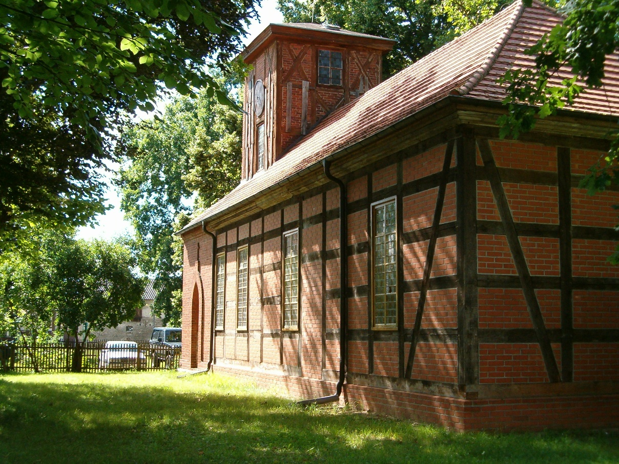 Church in Wutzetz in Brandenburg, Germany